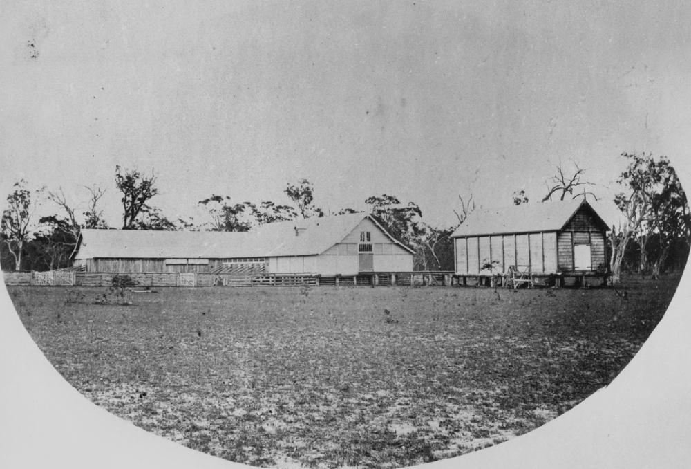 Woolshed at Western Creek Station, Queensland, ca. 1875